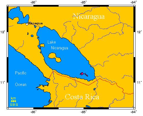 Map showing Solentiname Islands in magenta. Public domain map from Online Map Creation website: which is a set of open source tools for creating maps. The product of that work belongs to the creator.